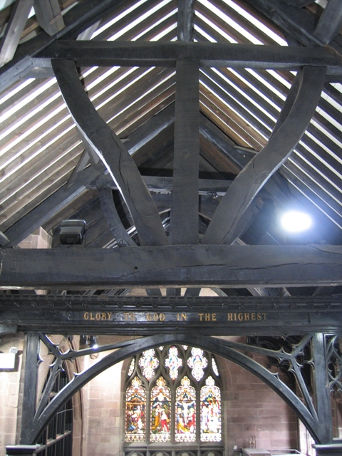 Photograph